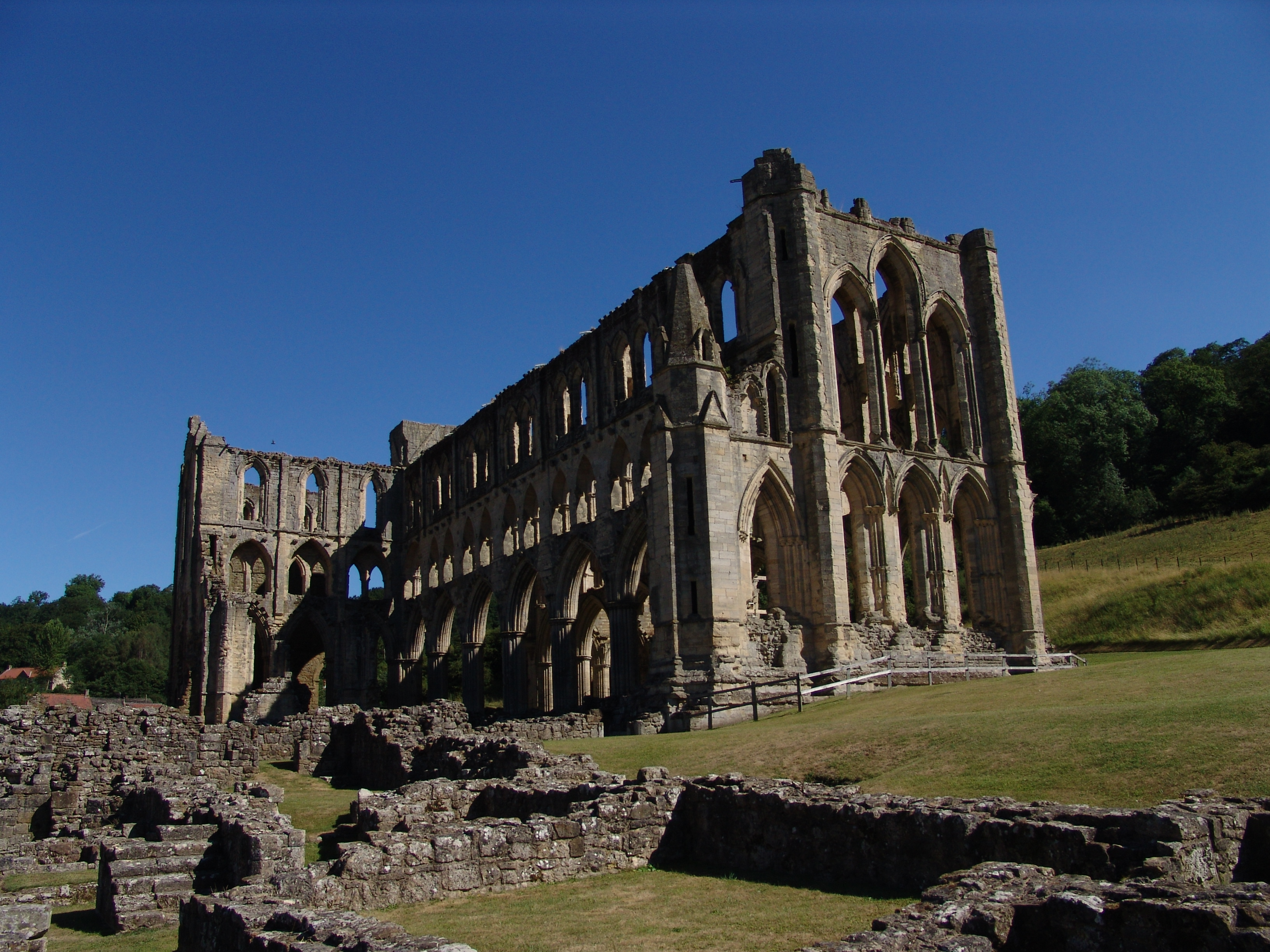 Rievaulx Abbey - remains of the church